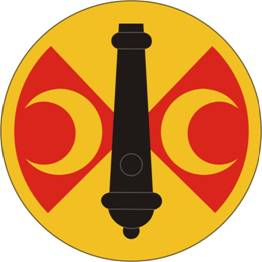 210th Fires Brigade shoulder sleeve insignia